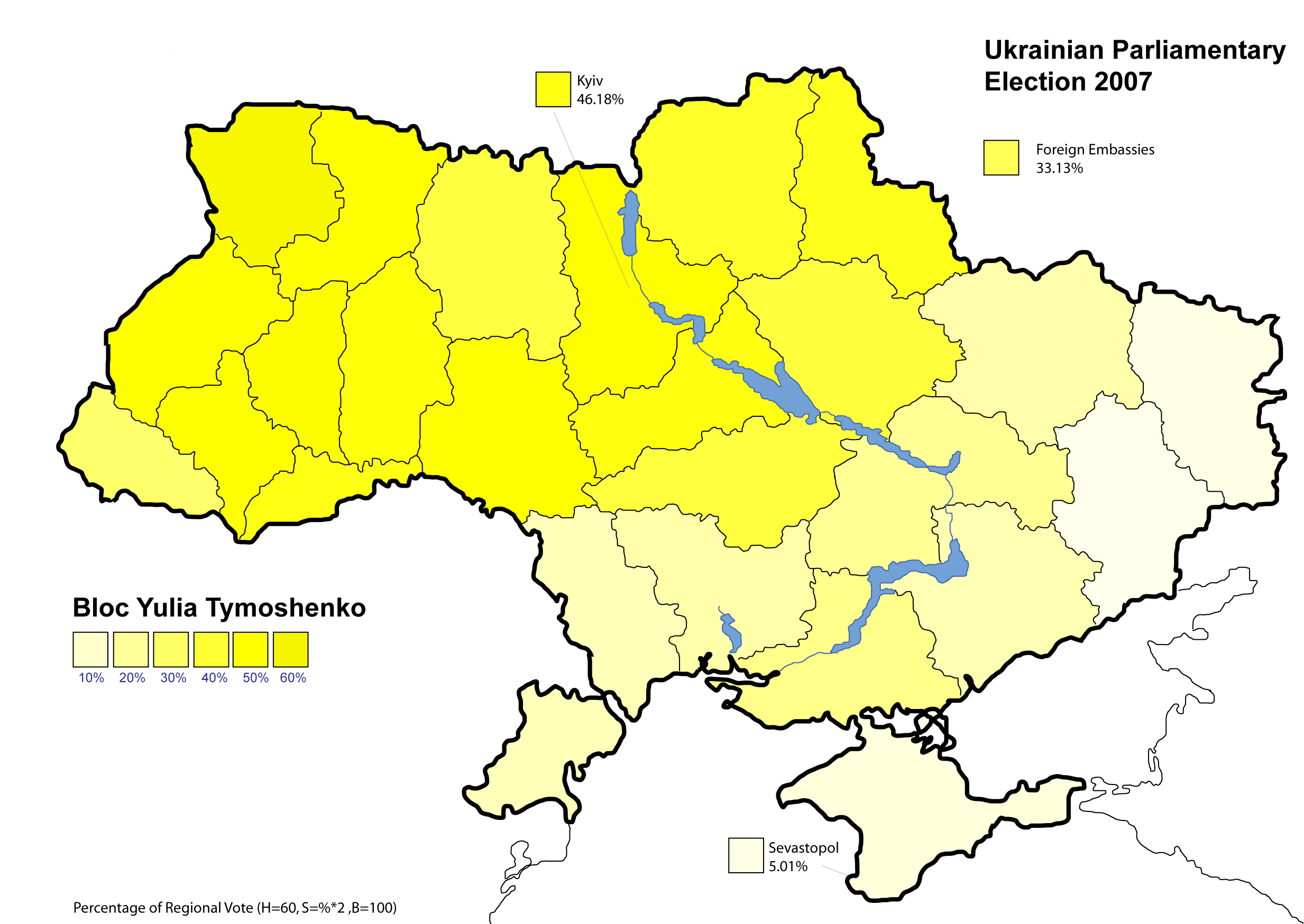 Ukrainian parliamentary election, 2007: Bloc Yulia Tymoshenko results (30.71%), one of the maps showing the top six parties support - percentage per region